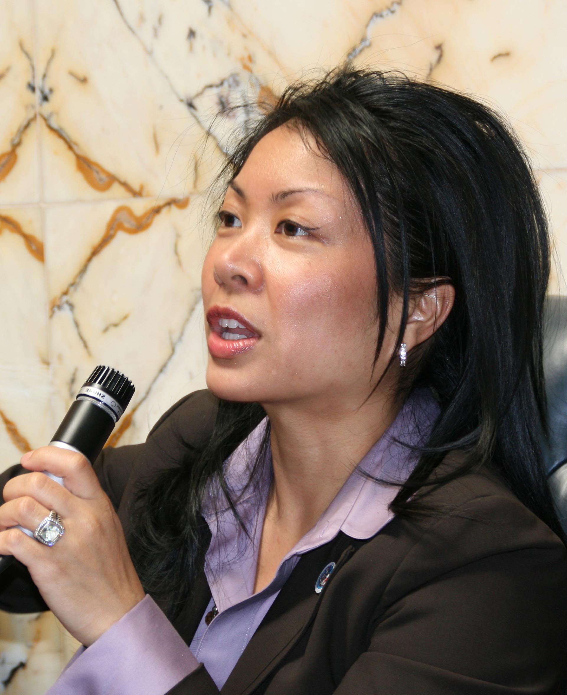 image of delegate valderrama